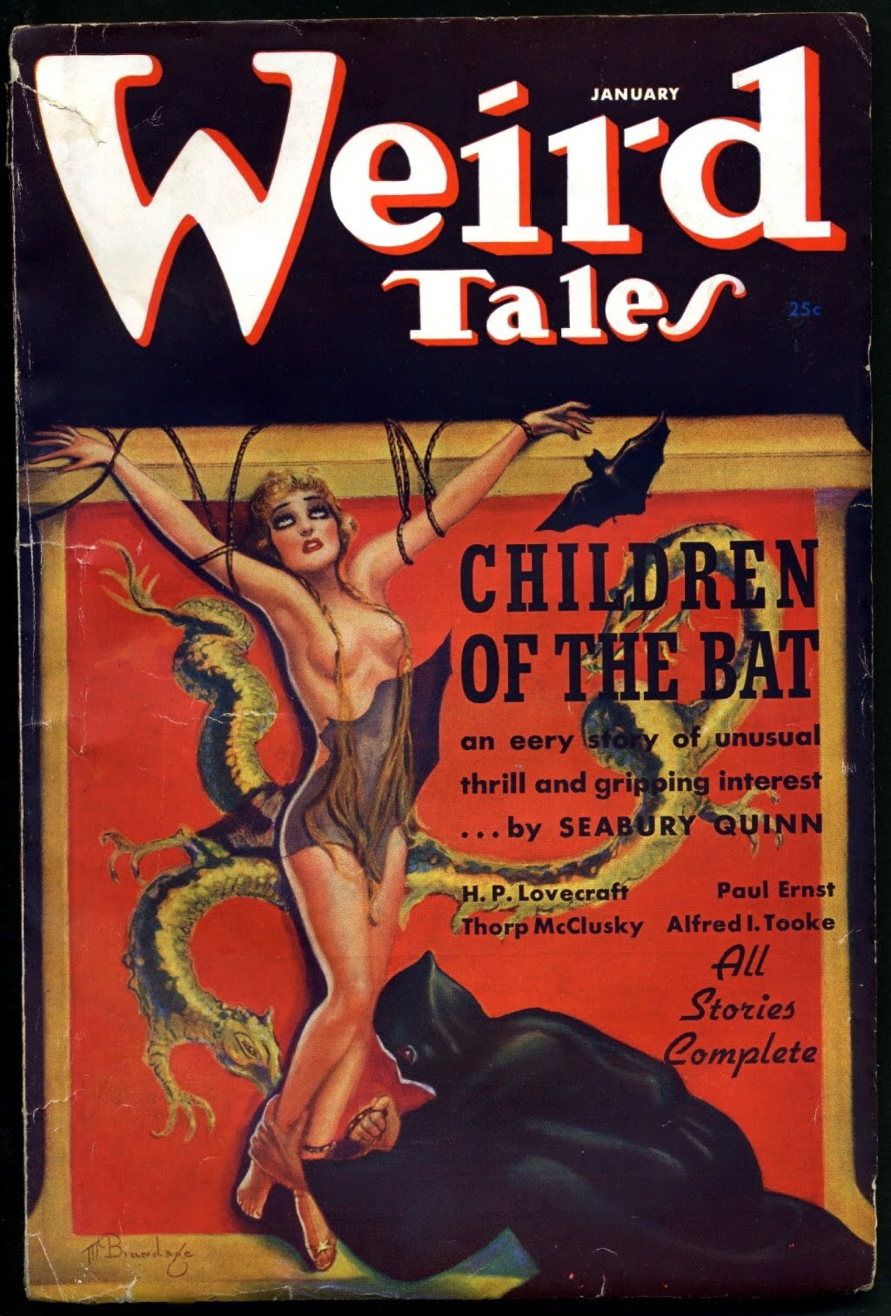 Cover of the pulp magazine Weird Tales (January 1937, vol. 29, no. 1) featuring Children of the Bat by Seabury Quinn. Covert art by Margaret Brundage.